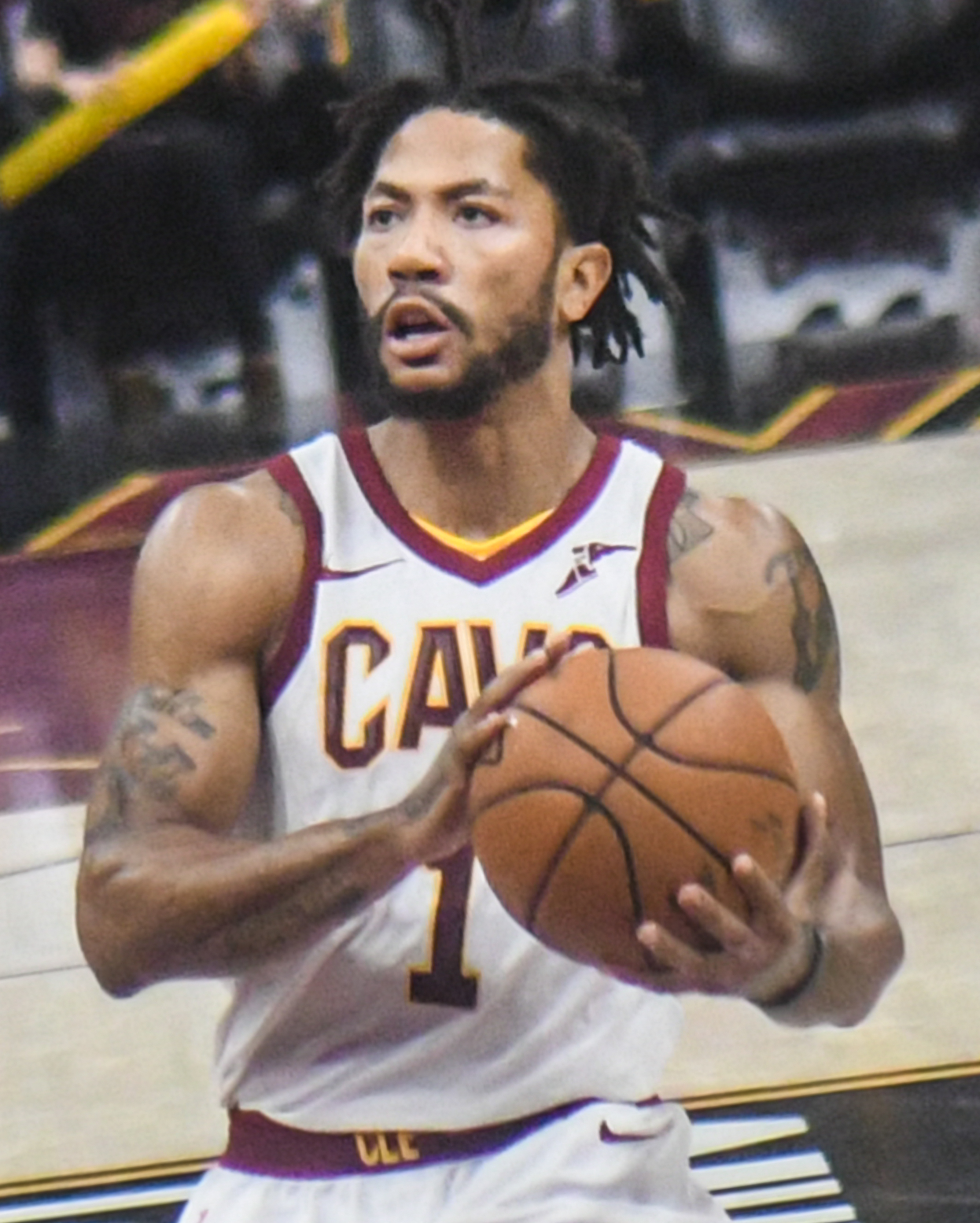 Derrick Rose of the Cleveland Cavaliers